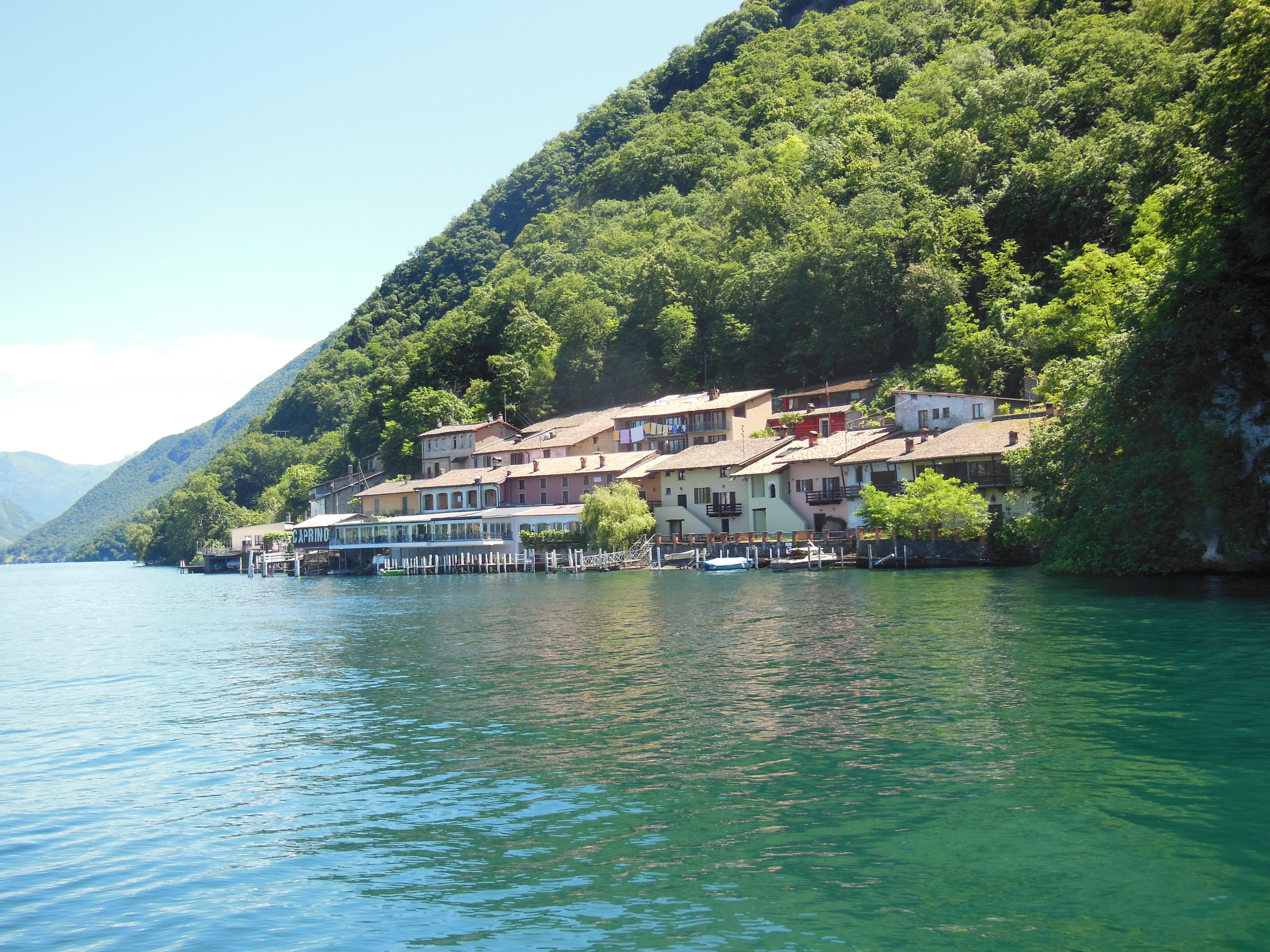 Cantina di Caprino, one of the small communities in the section of the city of Lugano along the east shore of Lake Lugano. For more information, see the Wikipedia articles Lugano and Lake Lugano